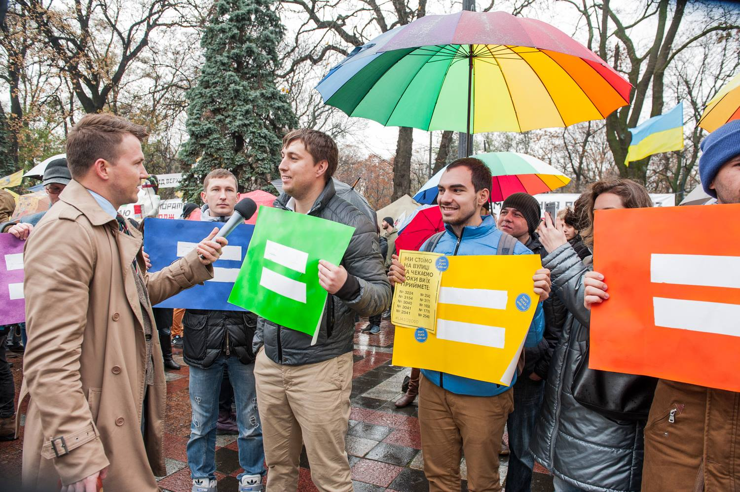 lgbt event